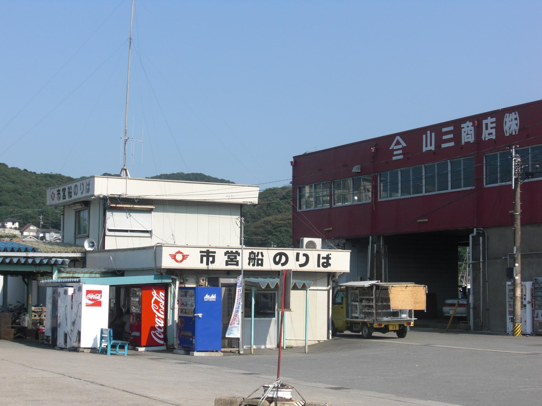 This is the Nakanogo Pier for Toba Municipal Management Marine Liner (Toba Shiei Teikisen), which is located in Toba, Mie, Japan.